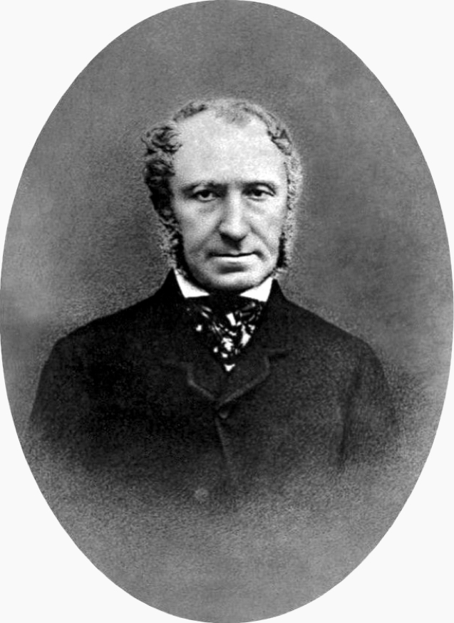 Photograph of Adolphe Marie Pierre de Circourt (1801–1879), French diplomat and historian.